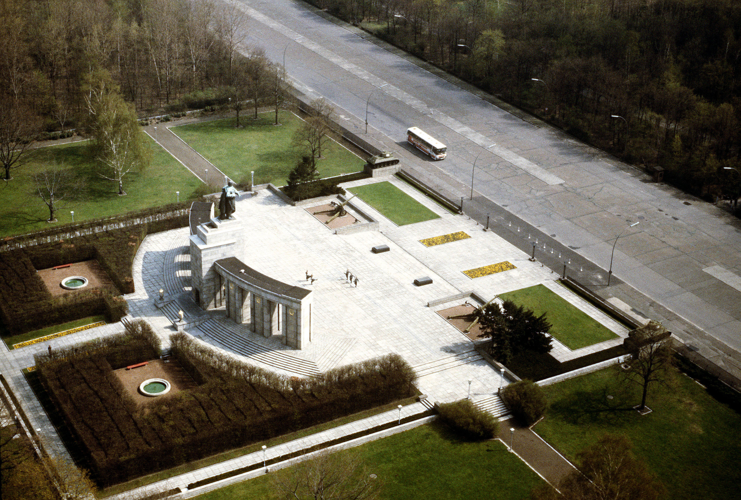 An aerial view of the Soviet War Memorial erected by the Soviets in 1945. Because of an incident involving a West German youth and guards, the memorial can only be viewed by Allied personnel from passing cars and tour buses